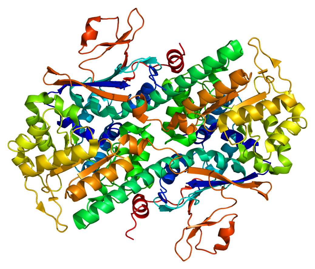 Structure of the PBEF1 protein. Based on PyMOL rendering of PDB 2g95.